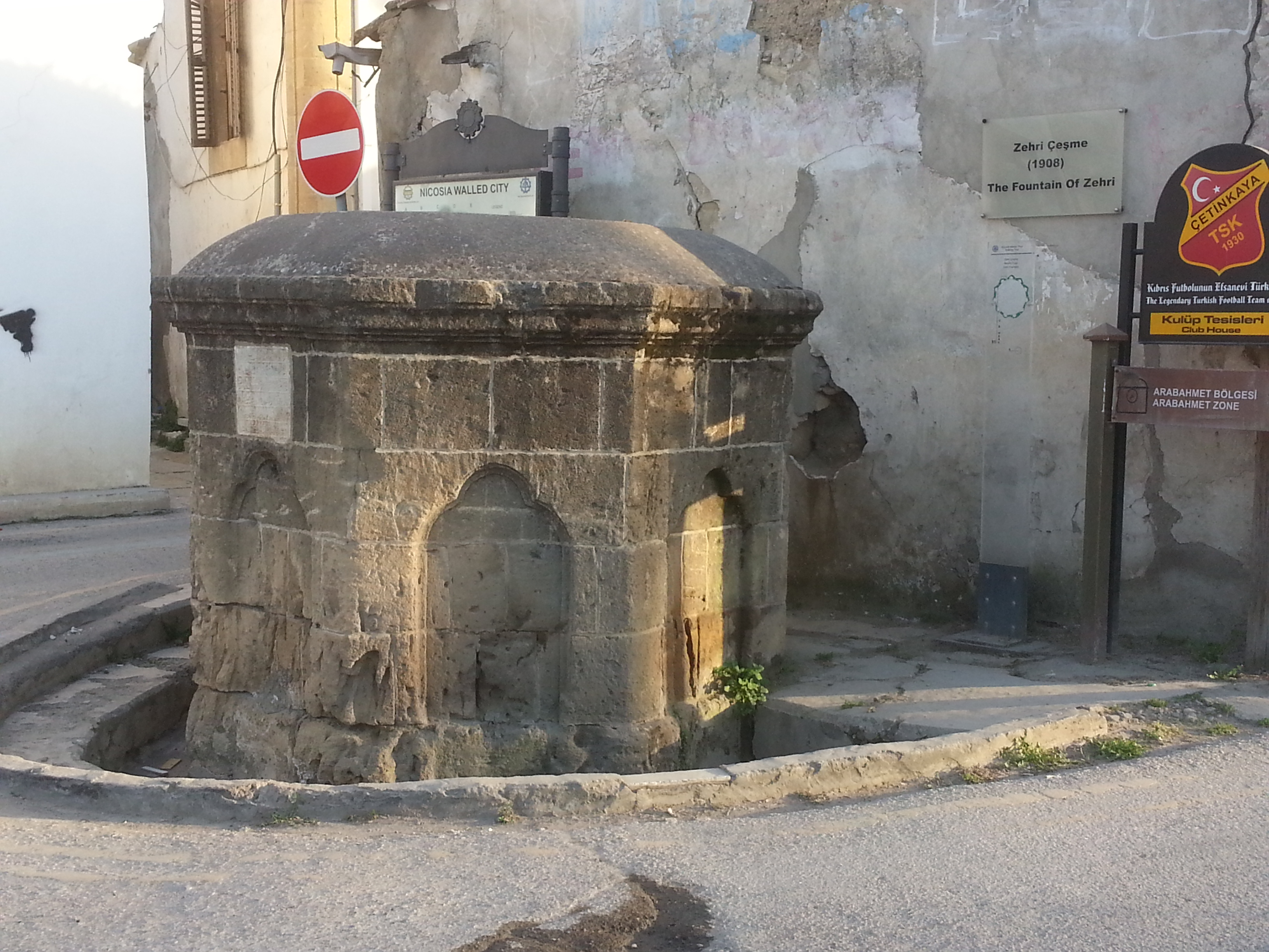 Zehri Fountain (Zehri Çeşme), also known as Hasan Mutallib Fountain (Hasan Mutallib Çeşmesi) at the intersection of Tanzimat and Zahra streets in Arab Ahmet, Nicosia, Northern Cyprus.